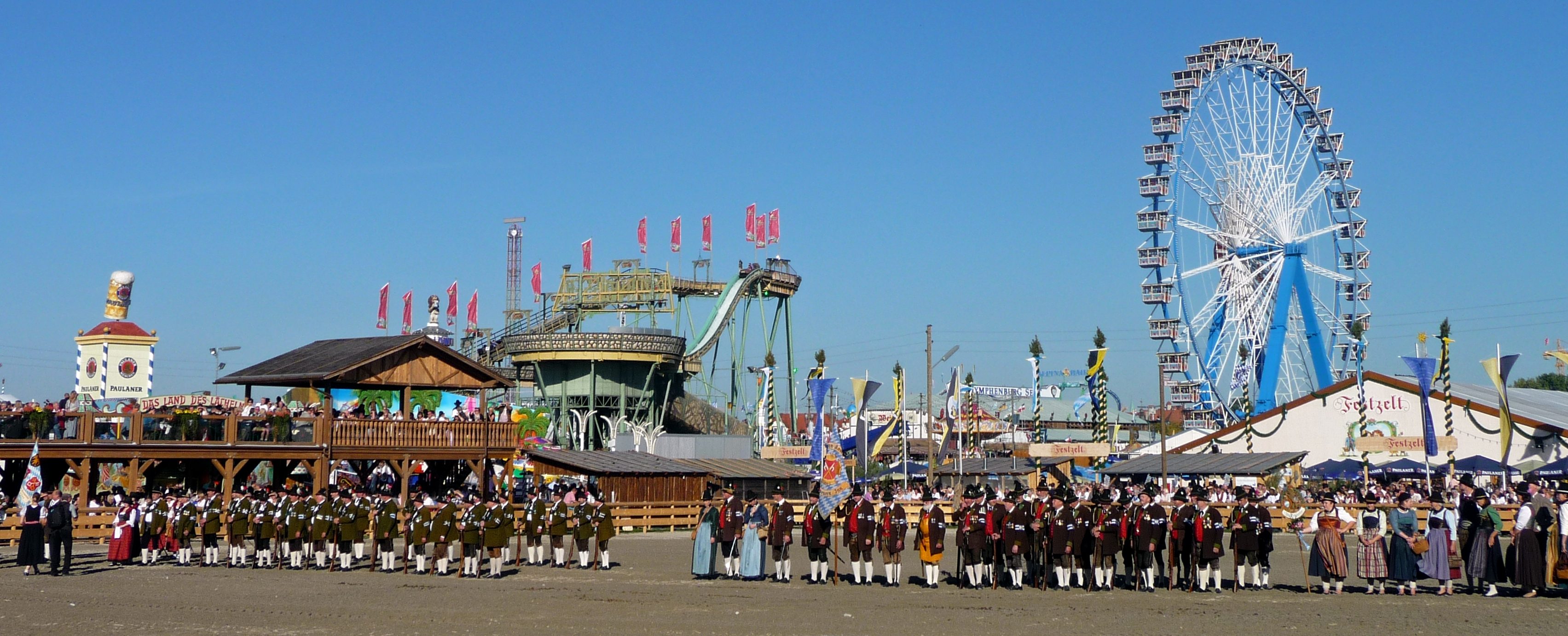 Celebrating 200 years of Oktoberfest at the specially built historical section of the Oktoberfest 2010.